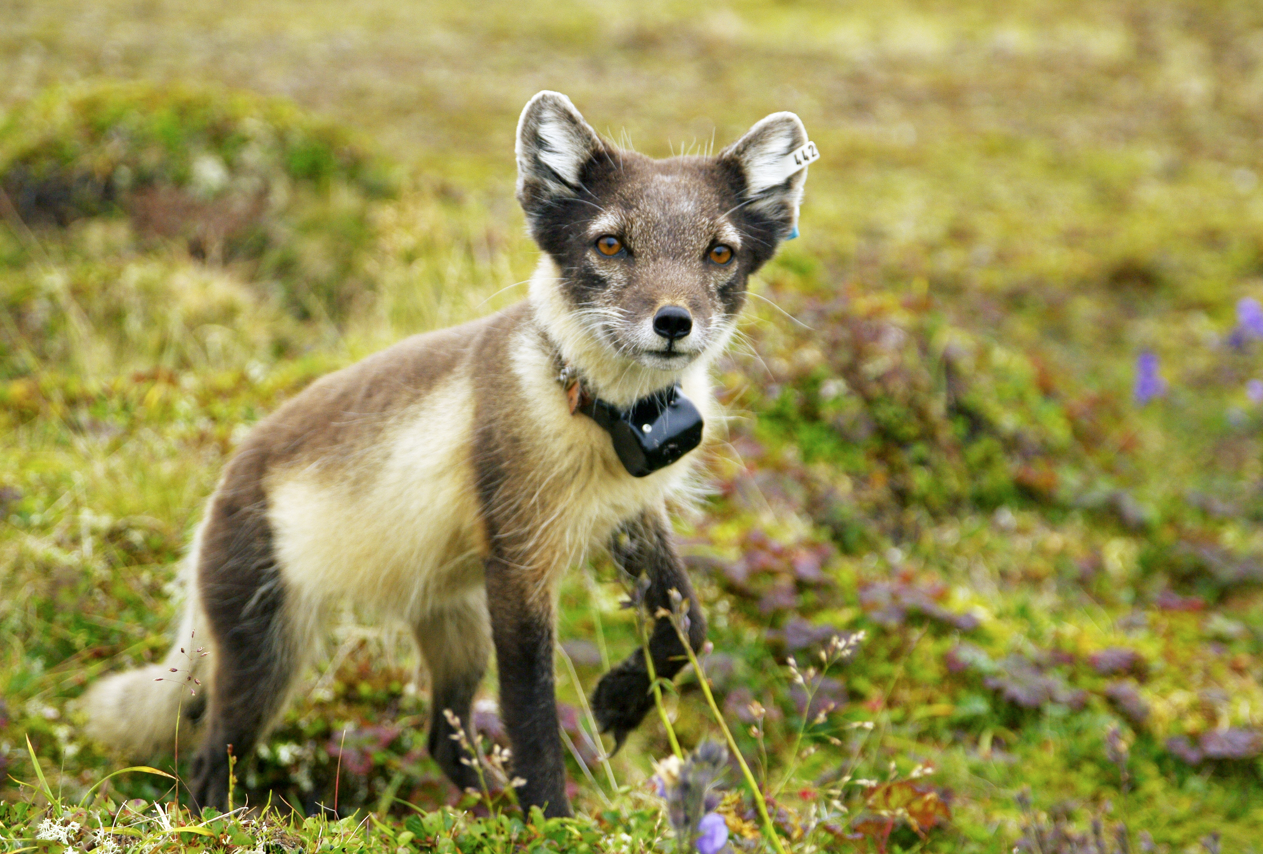 An arctic fox (Alopex lagopus) female, tagged with a satelite transmitter to study its' winter roaming on Kolguyev Island. The study of the tundra species movements is funded by Max Planck Institute for Ornithology (Radolfzell, Germany).